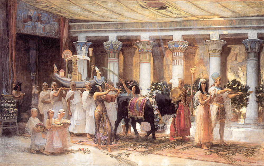 The_Procession_of_the_Sacred_Bull_Anubis (misnamed, being in fact the Egyptian black sacred bull Apis)